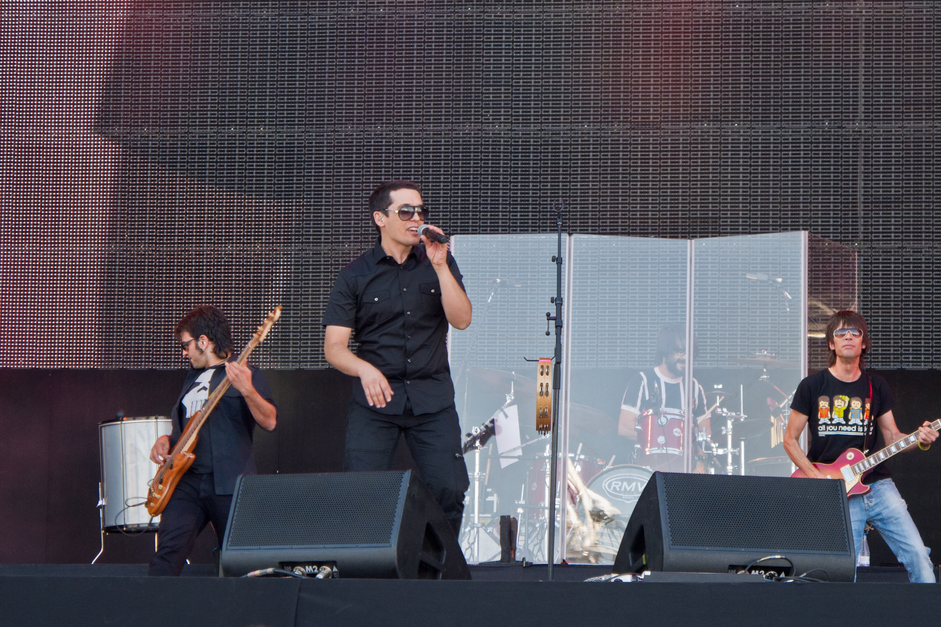 Maldita Nerea in Rock in Rio Madrid 2012.